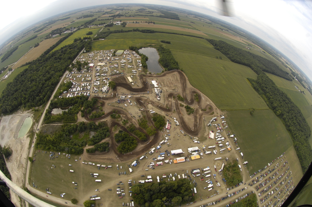 Walton Raceway during the GNC motocross from a helicopter